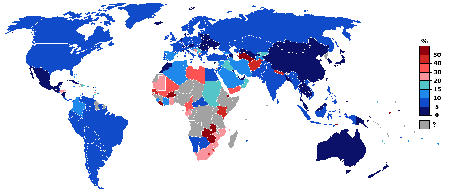 [1] (Note some figures may be out of date)